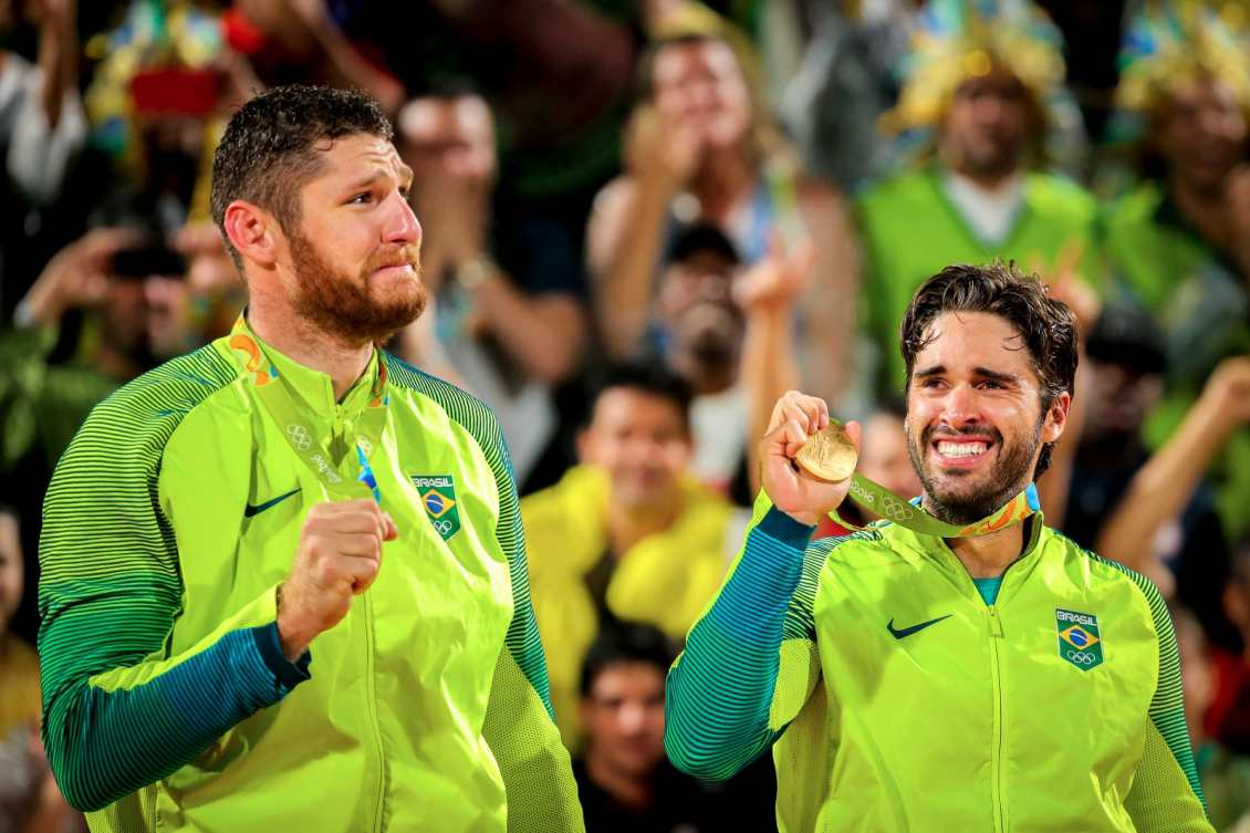 Bruno Schmidt and Alison Cerutti won the gold medal at the 2016 Rio olympics